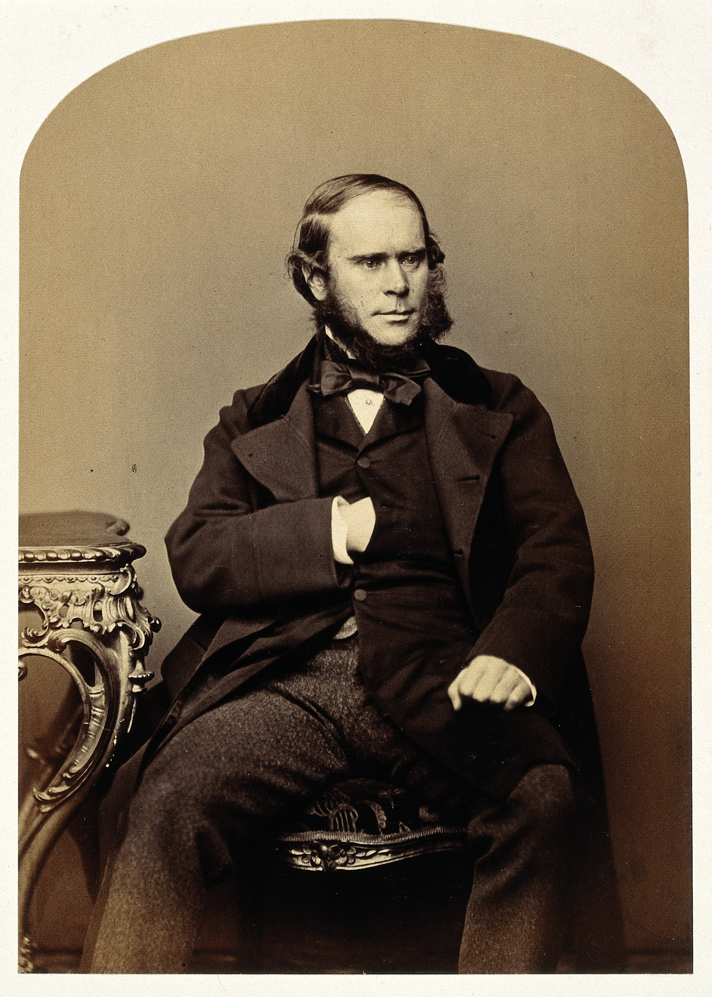 Benjamin Brecknell Turner. Photograph. Iconographic Collections Keywords: portrait photographs